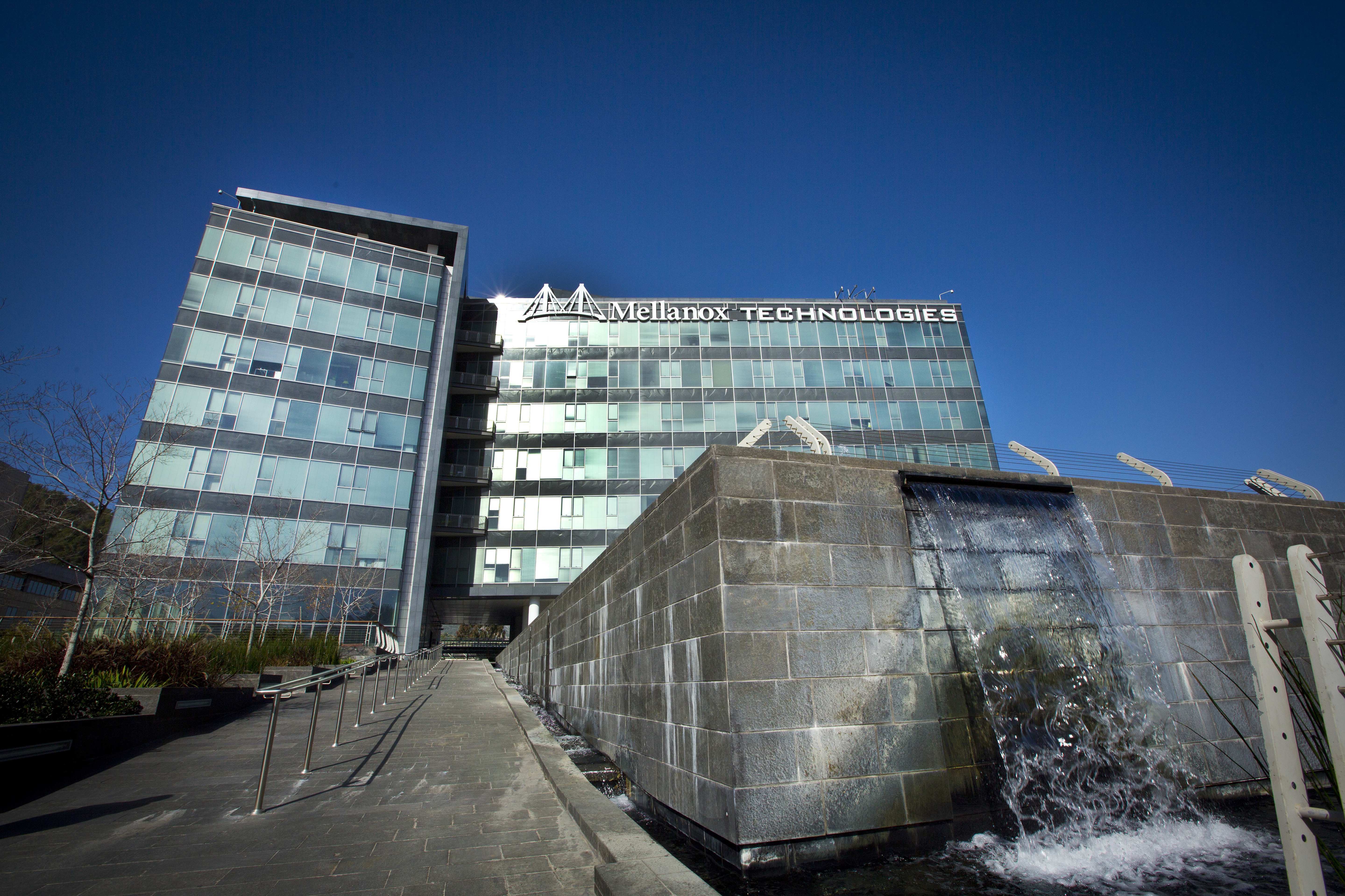 Beit Mellanox, Yokneam, Israel